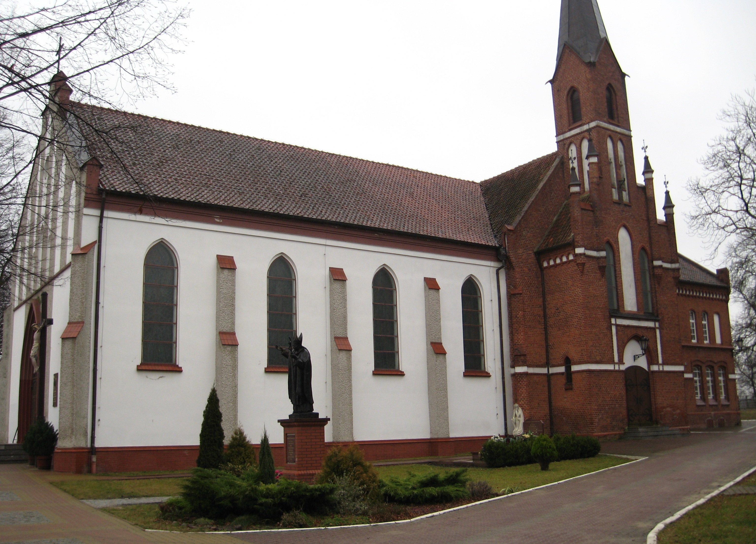 Church in Korsze, Poland.